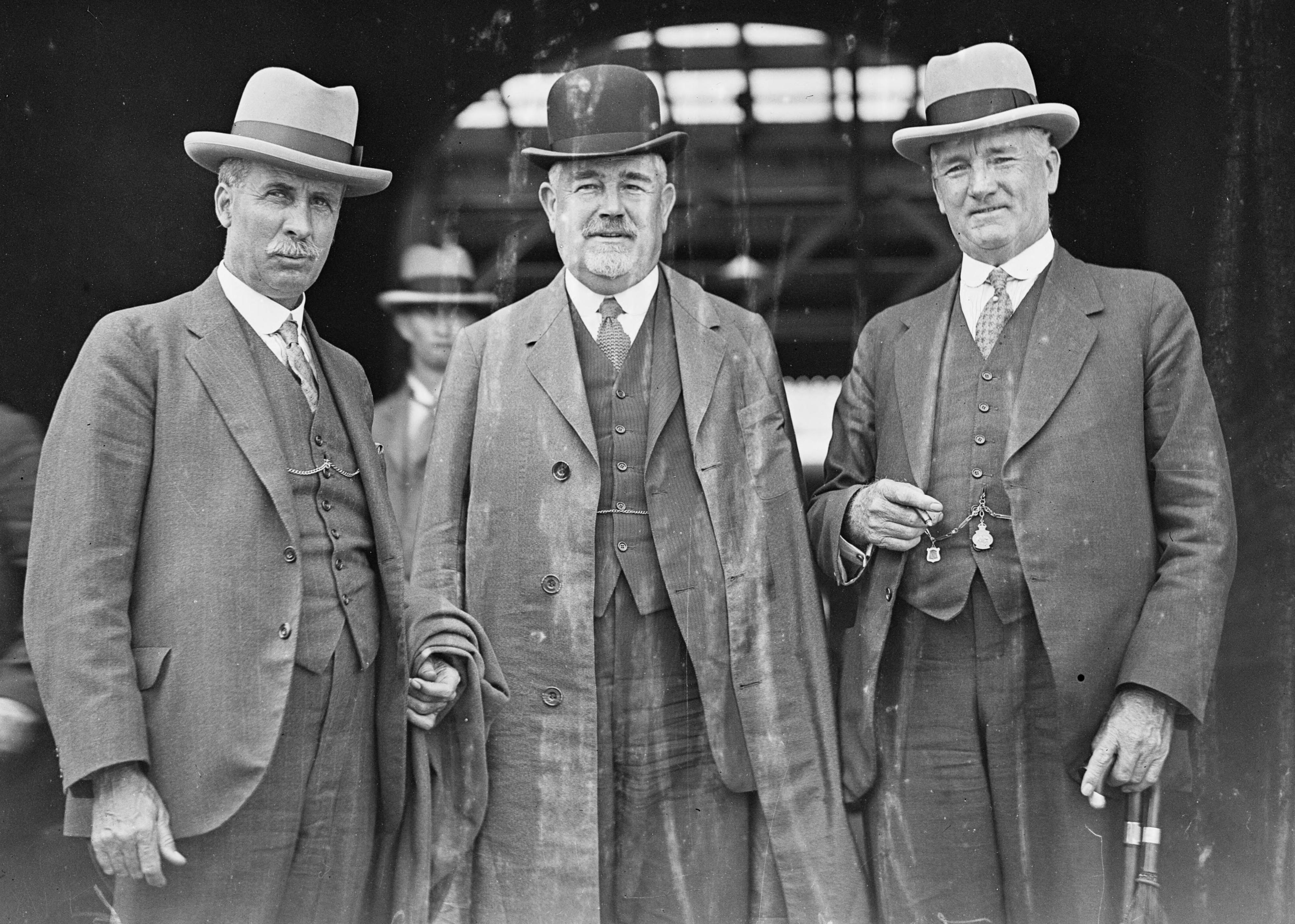 Australian politicians George Pearce, Alexander McLachlan and William Caldwell Hill